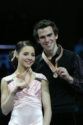 Jessica Dubé & Bryce Davison during the pairs medals ceremony at the 2008 World Championships.